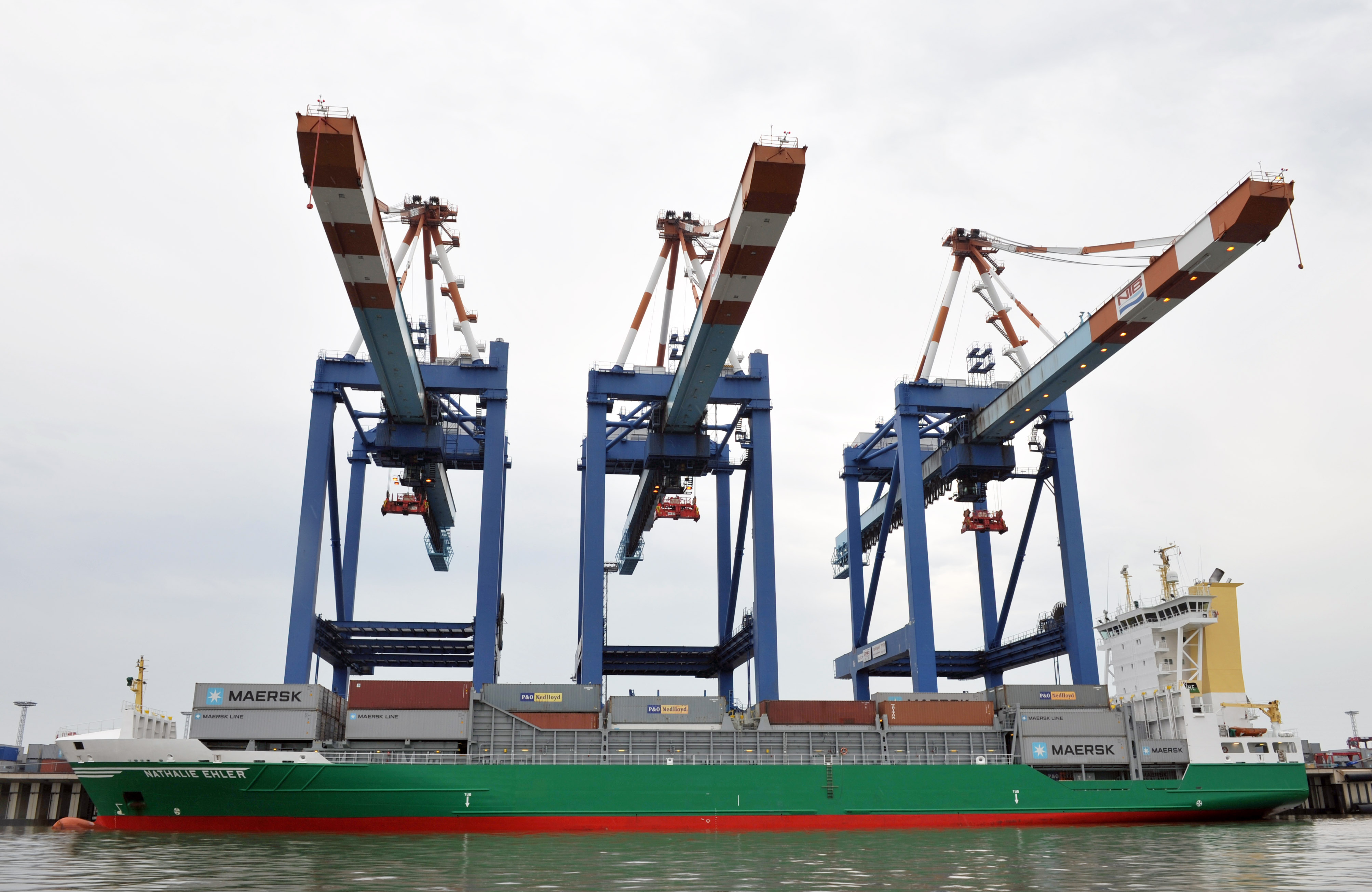 Container ship Nathalie Ehler at the container terminal of Bremerhaven IMO Number: 9242560 MMSI Number: 235872000 Callsign: MEMS3 Length: 133 m Beam: 22 m